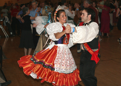 This is a photo of Polka Dancers dancing at the National Polka Festival in Ennis, Tx. File:Polka Dancers at National Polka Festival in Ennis, Tx.jpg Other information All permissions and releases were obtained by the people in the photos and an email from the owner of the photo stating that this photo is free to be published was sent to .